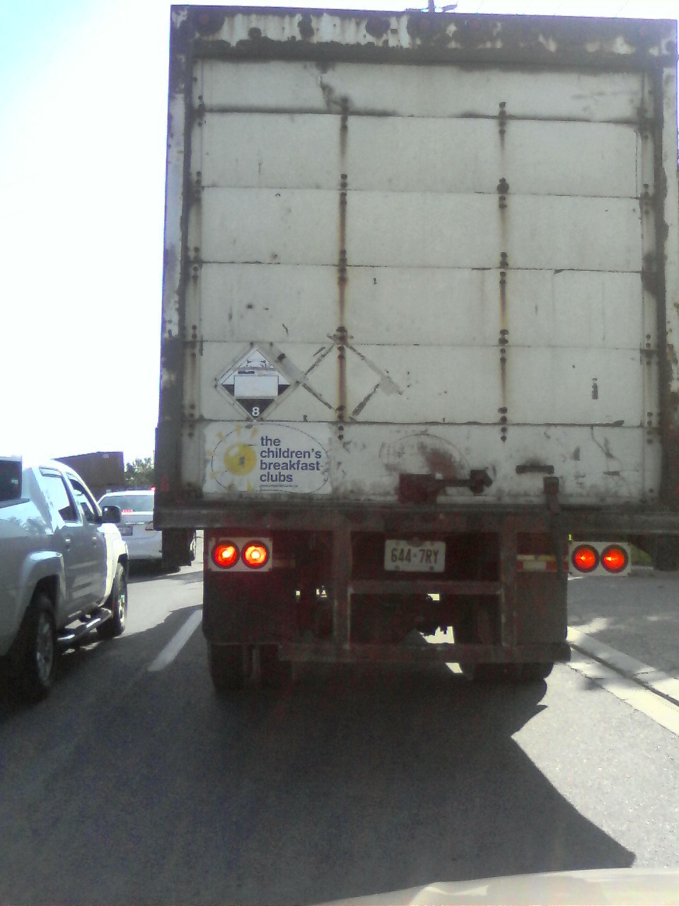 HAZMAT Class 8 Corrosive Substances placard on the rear of a truck. Taken in Markham, Ontario, Canada